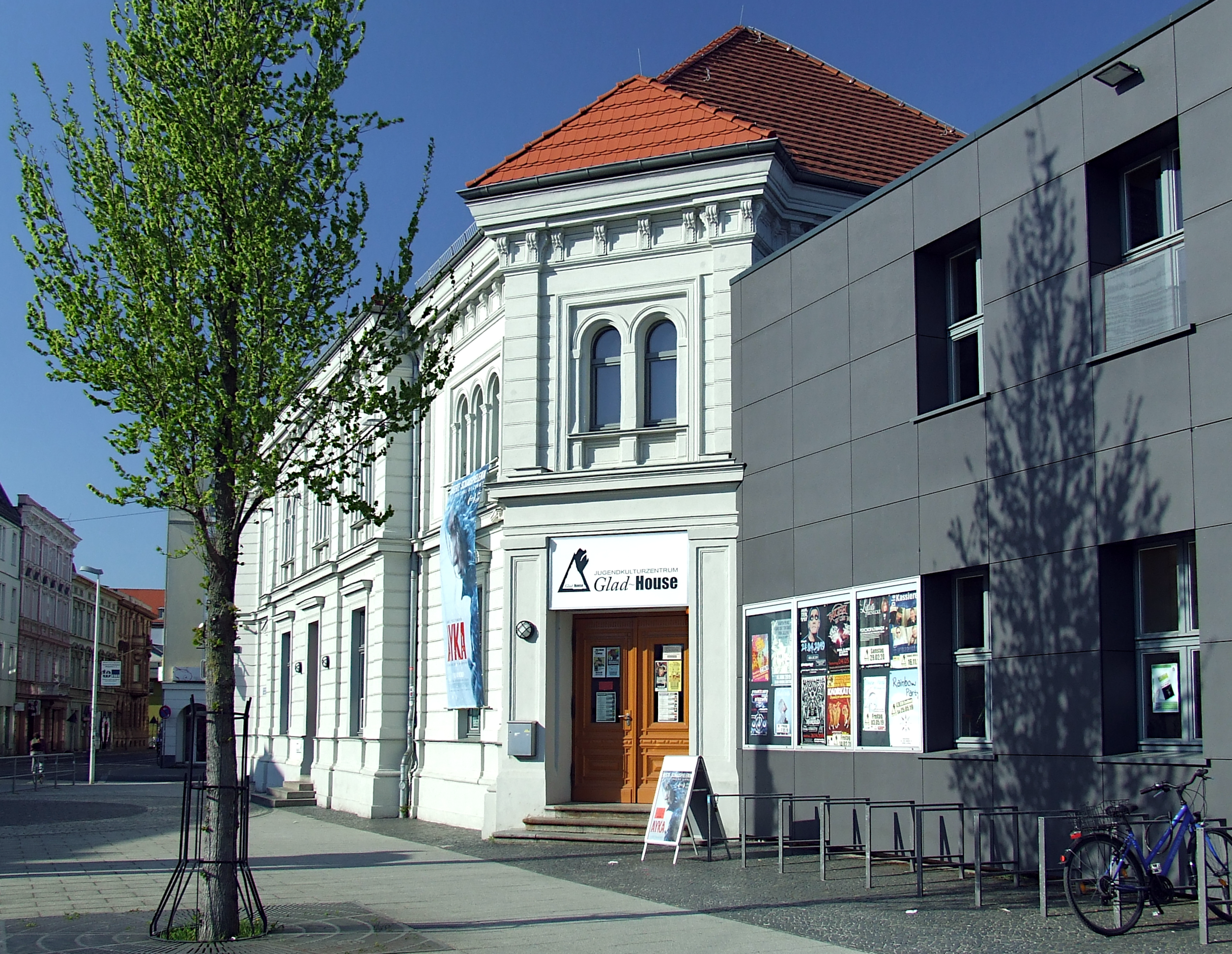 Straße der Jugend 16 (Bürger-Kasino) in Cottbus-Mitte. Shown here is the main entrance of youth centre "Glad-HOUSE".